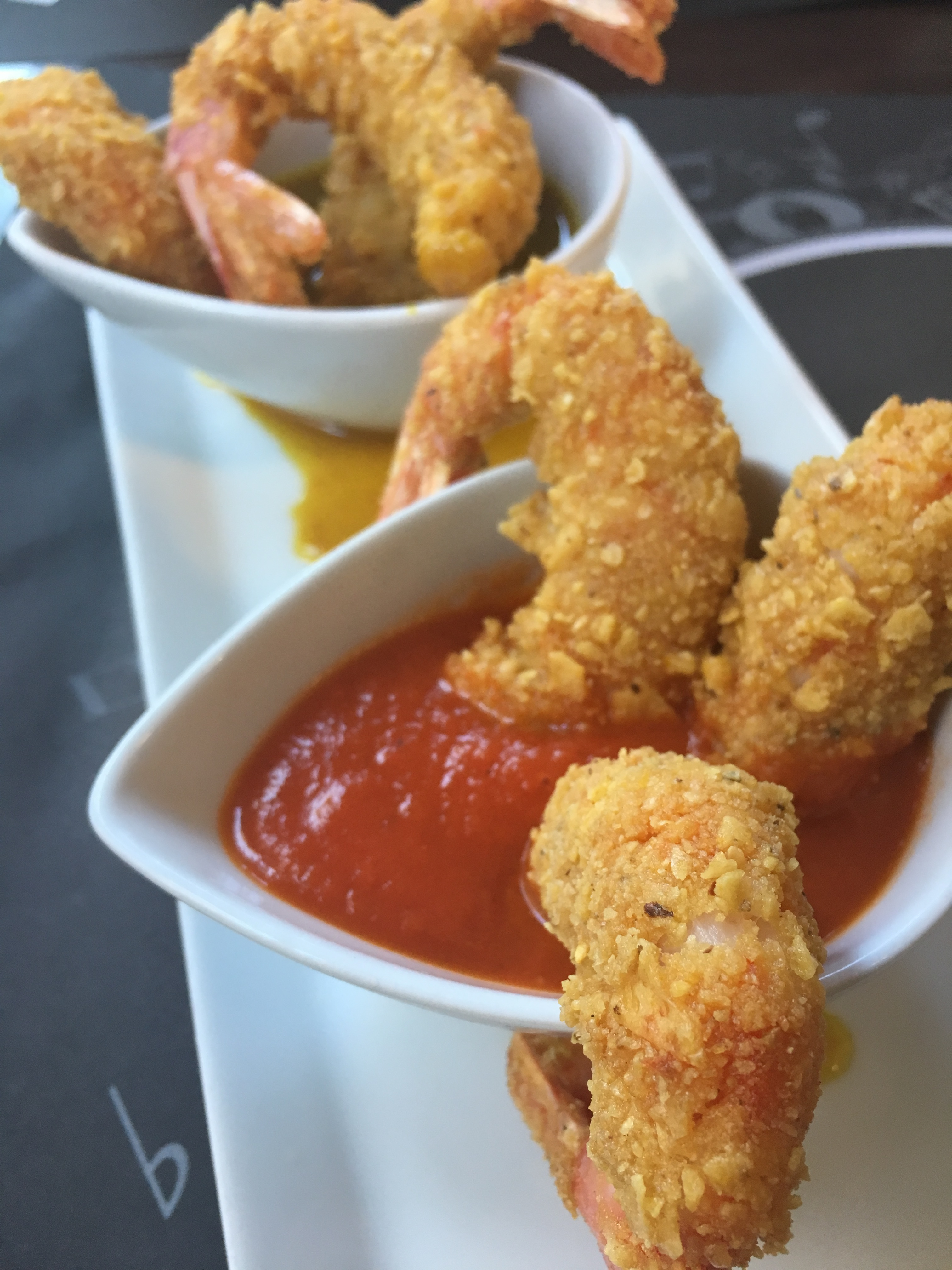 Valencia, Spain.